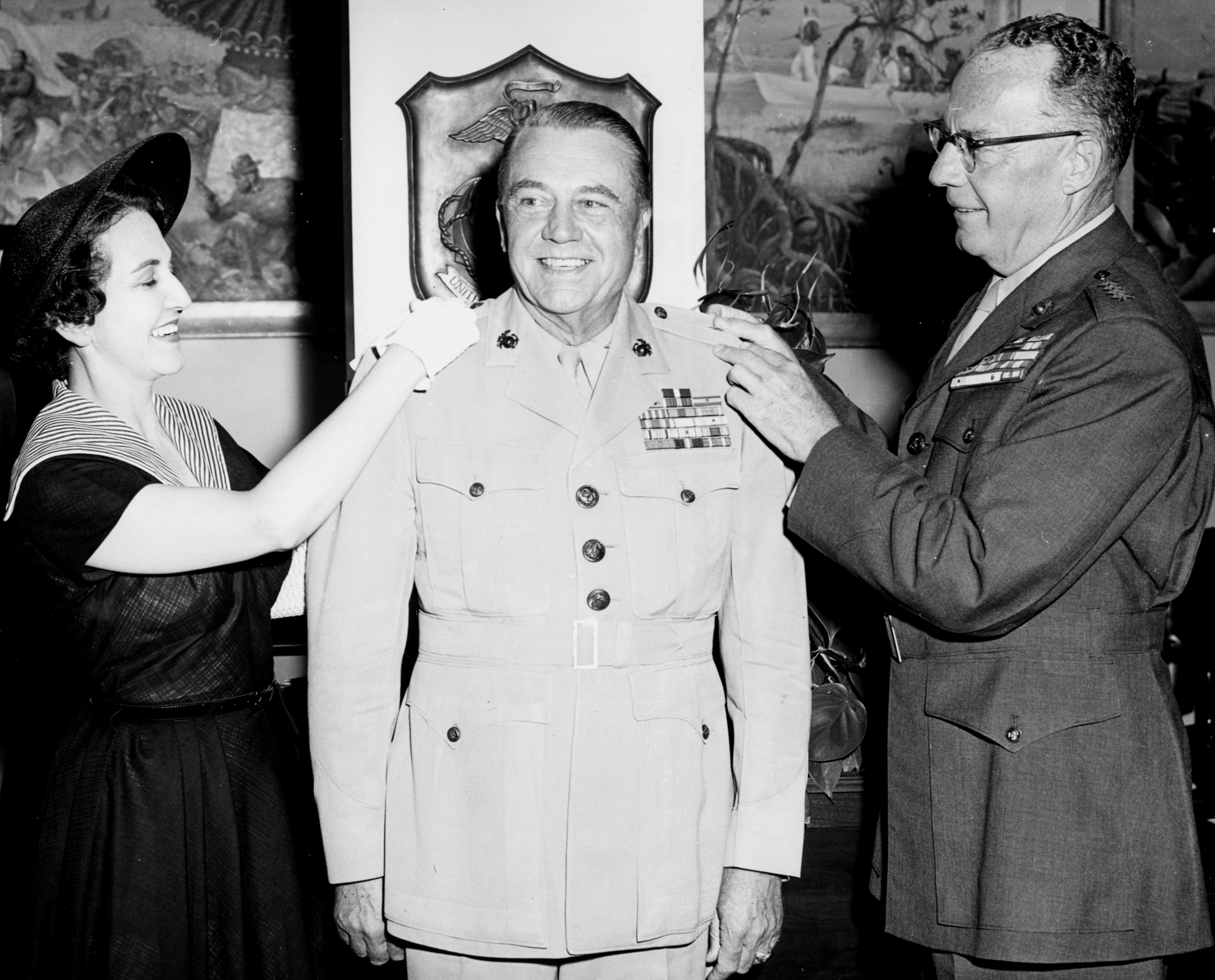 Brigadier General Earl S. Piper, USMC (Retired) has the insignia of his new rank pinned on during retirement ceremonies held in the Commandant's office Headquarters Marine Corps in Washington, D.C. on June 28, 1957. (Left to right) Mrs. Elizabeth Piper, Brigadier general Earl S. Piper and General Randolph McC. Pate, Commandant of the Marine Corps.